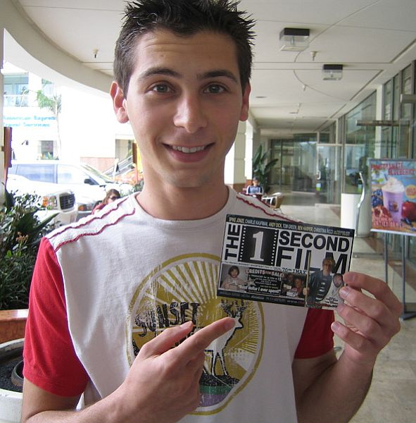 Justin Berfield promoting a non-profit event. The 1 Second Film